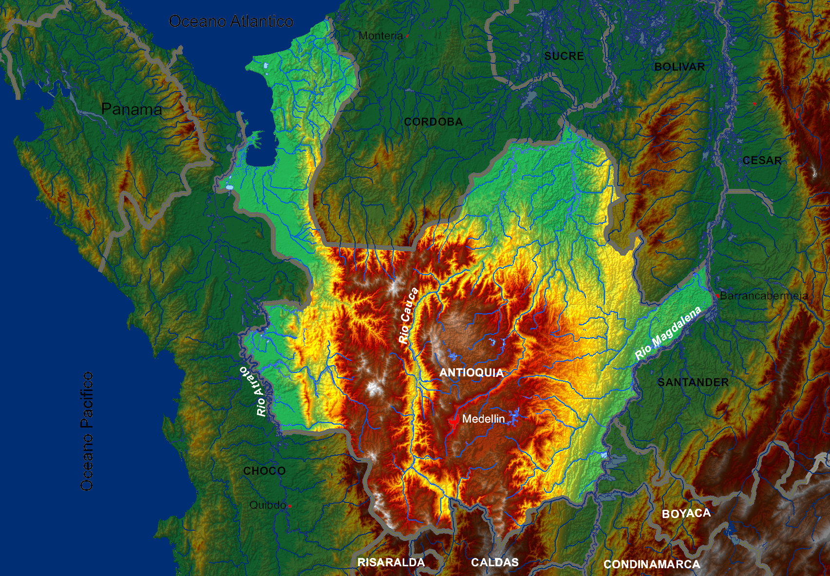 Departamento de Antioquia, Mapa Fisico, Colombia, Datos Vmap1 y NASA-SRTM3 Map limits : top ≈ 8.995 bottom ≈ 5.245 left ≈ -78.542 right ≈ -73.139